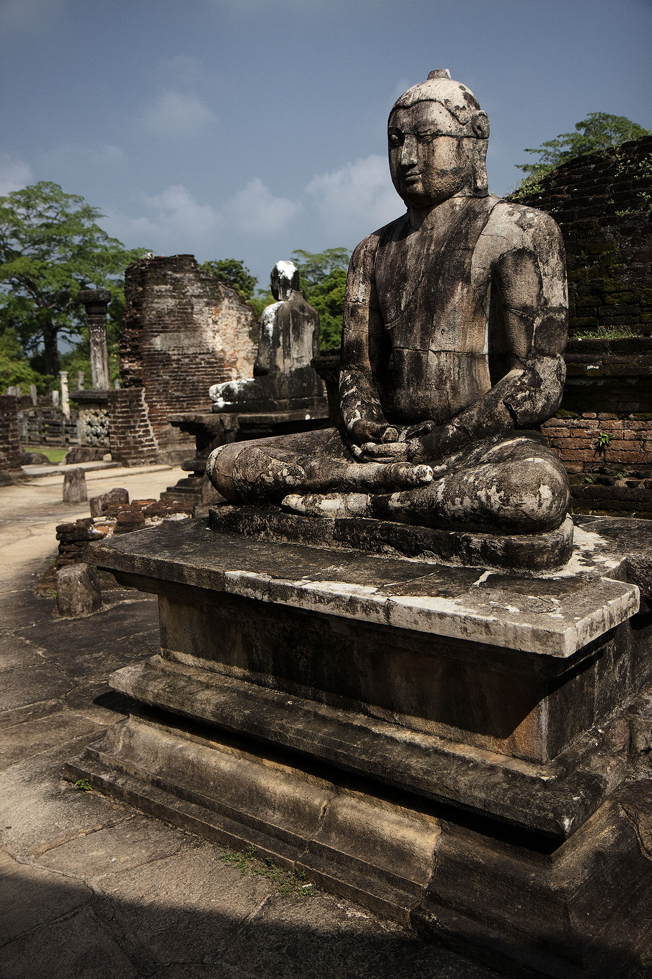 Buddhist statue in the former capital city of Polonnaruwa in Sri Lanka